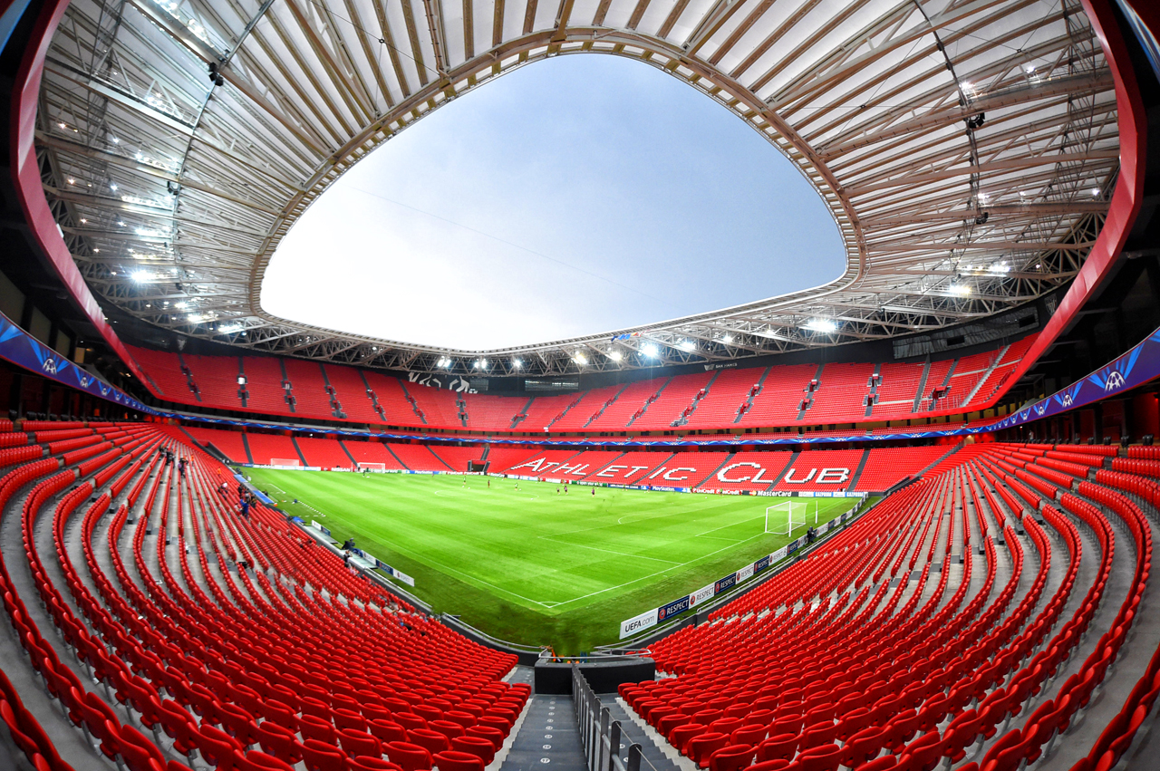 San Mamés Stadium in Bilbao, Basque Country, Spain